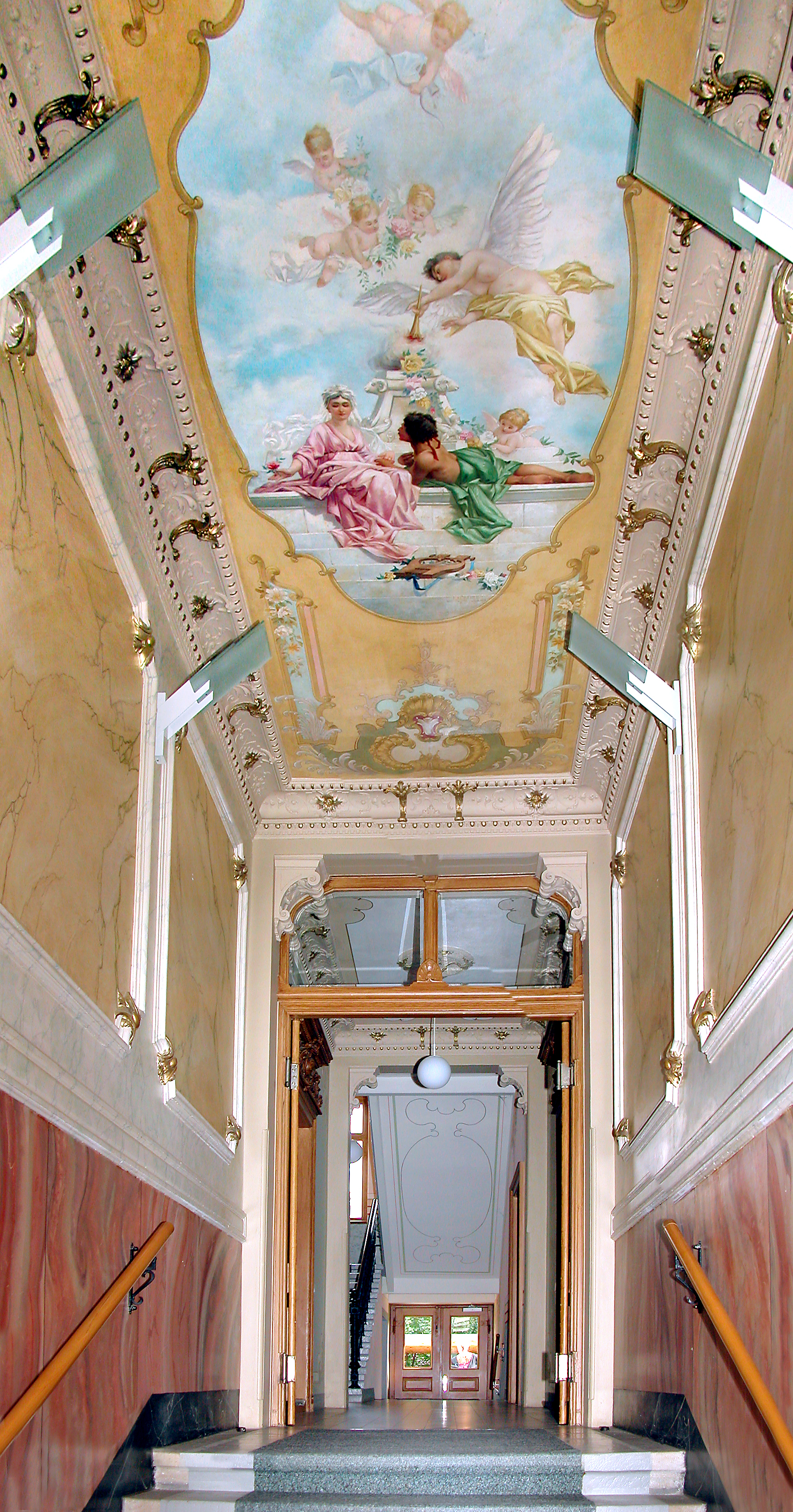 19.09.2007 01277 Dresden-Striesen: Mietshaus Voglerstraße 9 (1899). Entrée Richtung Treppenhaus. [DSCN29749+51&29748.TIF]20070919205MDR.JPG(c)Blobelt